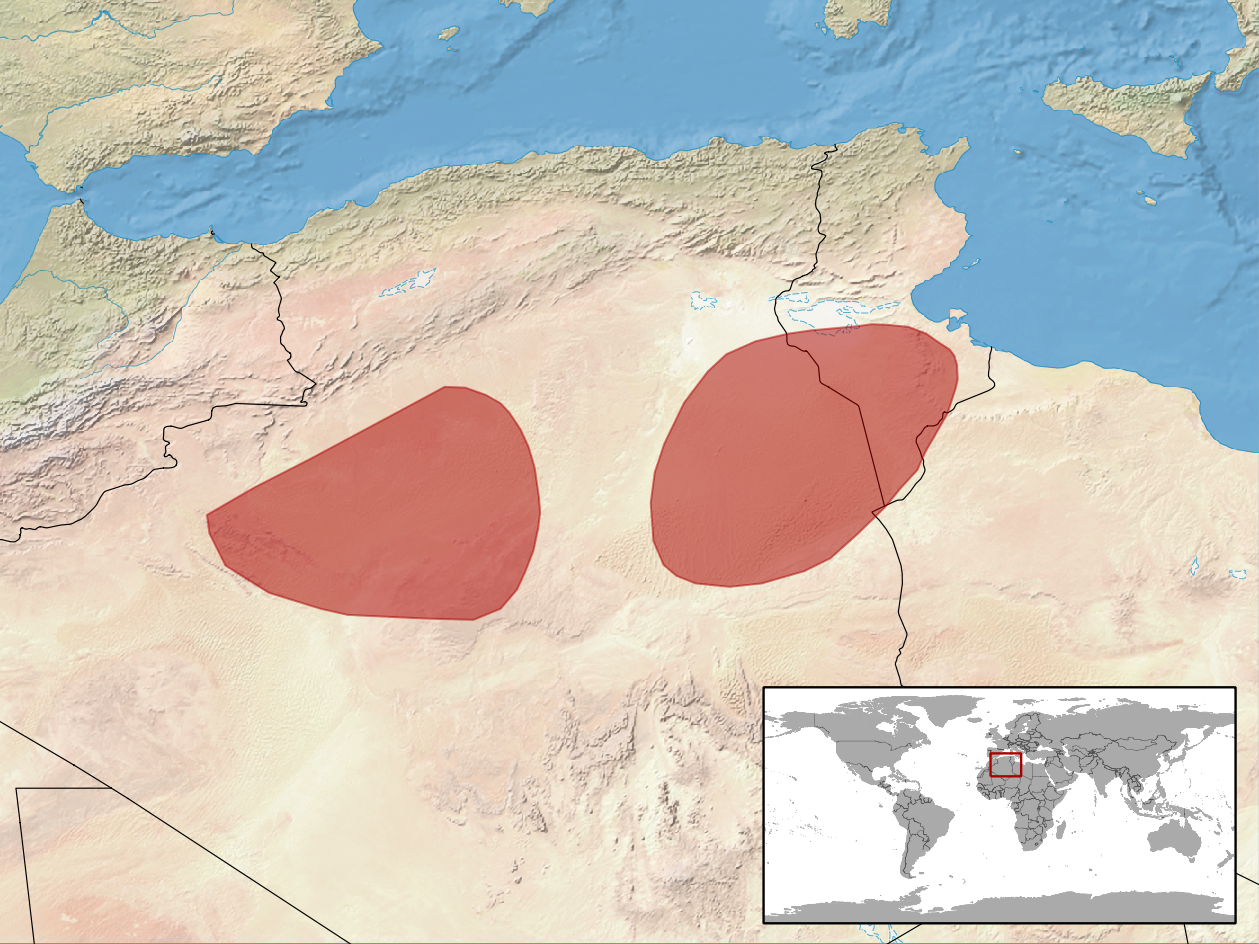 geographic distribution of Trapelus tournevillei (Native: Algeria; Tunisia)